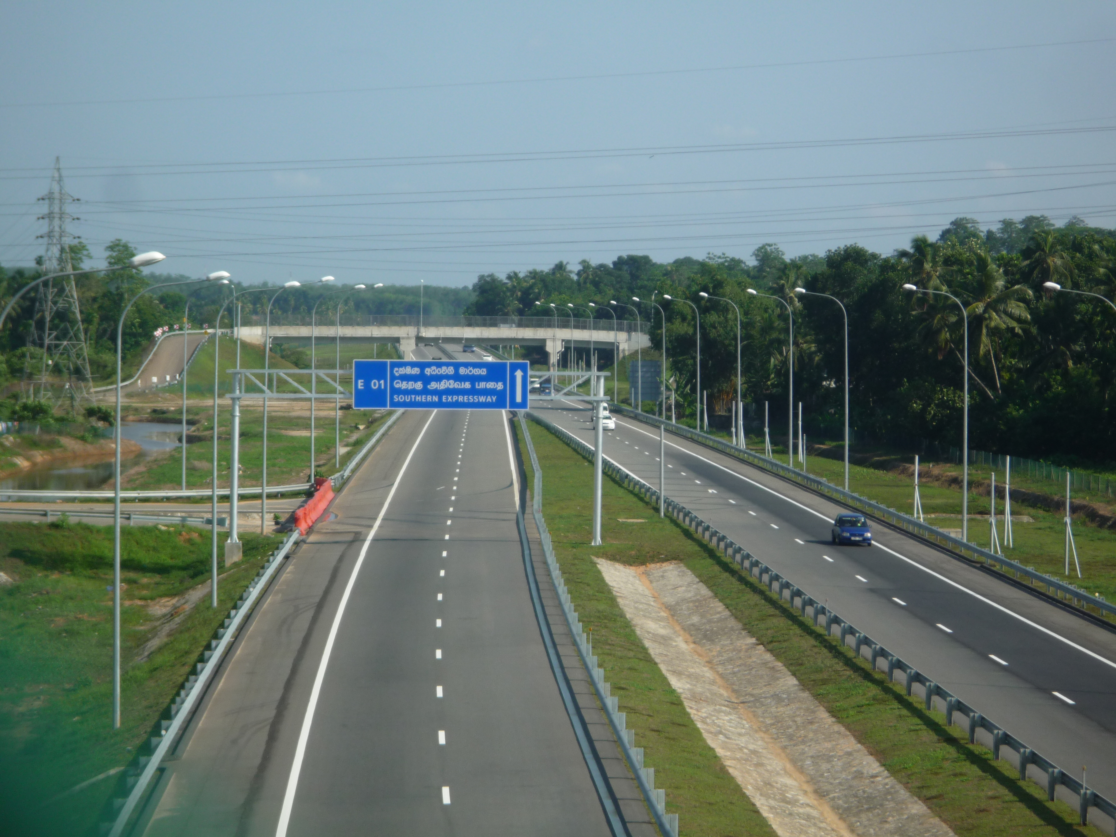 Southern Expressway is Sri Lanka's first E Class highway. The 126 km (78 mi) long highway links the Sri Lankan capital Colombo with Galle and Matara, major cities in the south of the island.